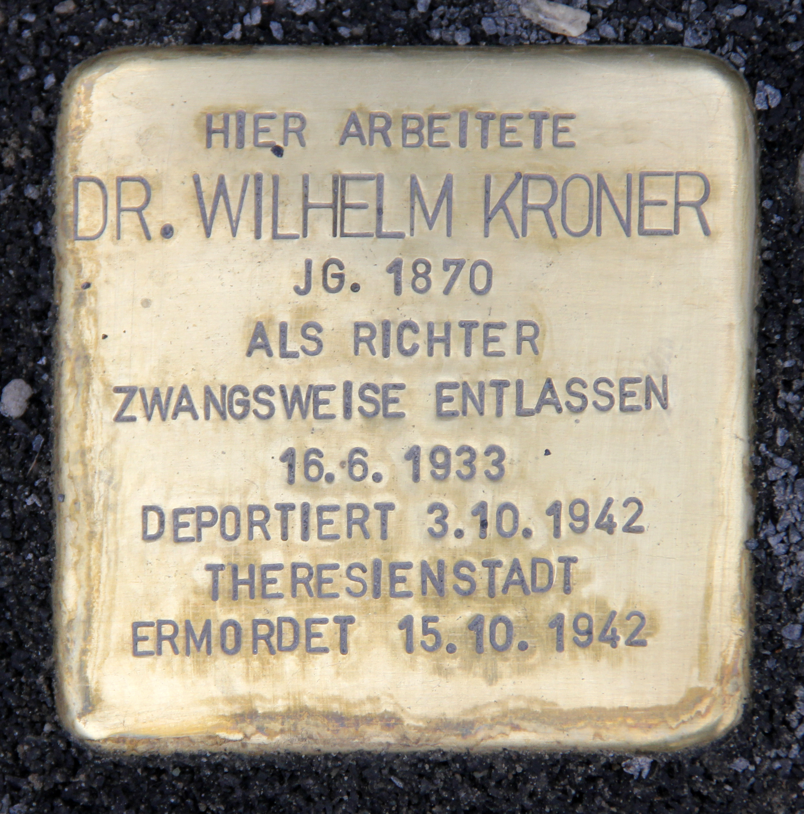 "Stolperstein" (stumbling block), Wilhelm Kroner, Hardenbergstraße 31, Berlin-Charlottenburg, Germany